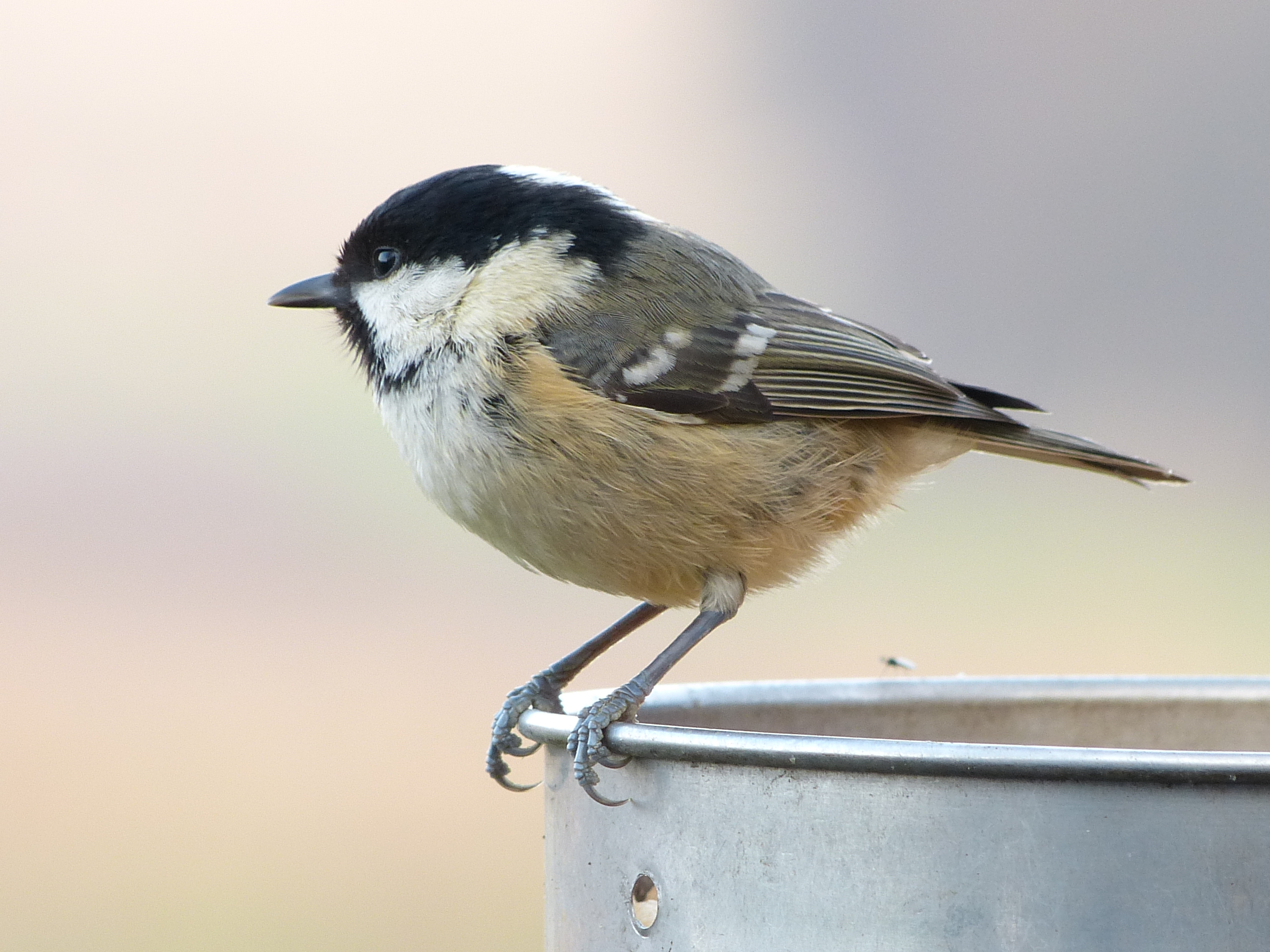 Latin name Periparus ater Family Tits (Paridae) Overview Not as colourful as some of its relatives, the coal tit has a distinctive grey... Where to see them Woodland, especially conifer woods, parks and gardens. When to see them All year round. What they eat Insects, seeds and nuts.